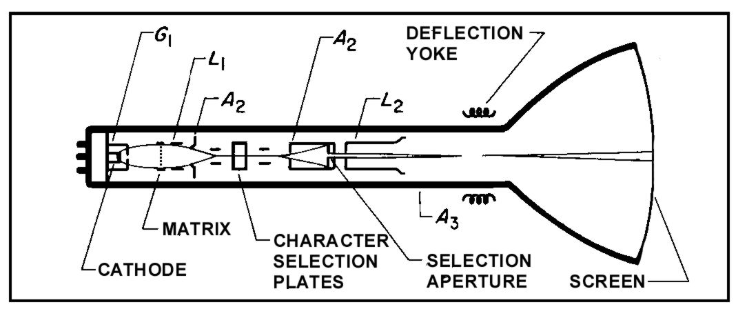 A charactron. The basic image was taken from a NASA report and heavily edited for content and clarity